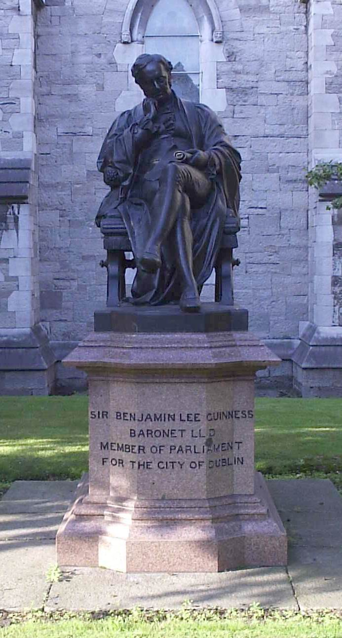 Statue of Benjamin Guinness at St. Patrick's Cathedral in Dublin. John Henry Foley (1818–1874) DescriptionIrish sculptorDate of birth/death 24 May 1818 27 August 1874Location of birth/death Dublin LondonWork location LondonAuthority control : Q1925736 VIAF: 74125725 ISNI: 0000 0001 2139 7340 ULAN: 500248701 LCCN: n00030920 Oxford Dict.: 9786 WorldCat creator QS:P170,Q1925736